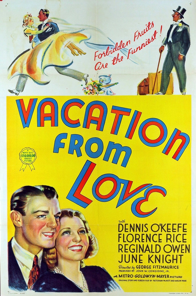 Poster for the 1938 film Vacation From Love. There are no copyright marks. At bottom left is Litho in USA #(looks like) 2386. At bottom right is Tooker Litho Co. NY-they printed the poster.